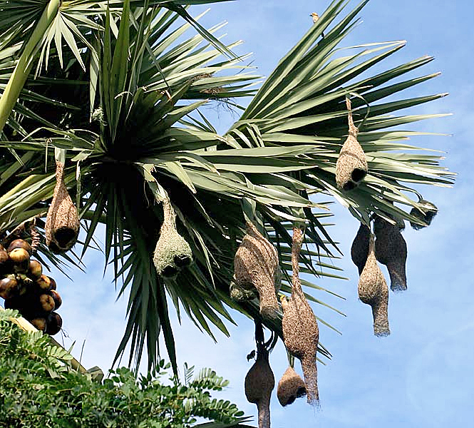 Baya Weaver Ploceus philippinus in Kolkata, West Bengal, India.